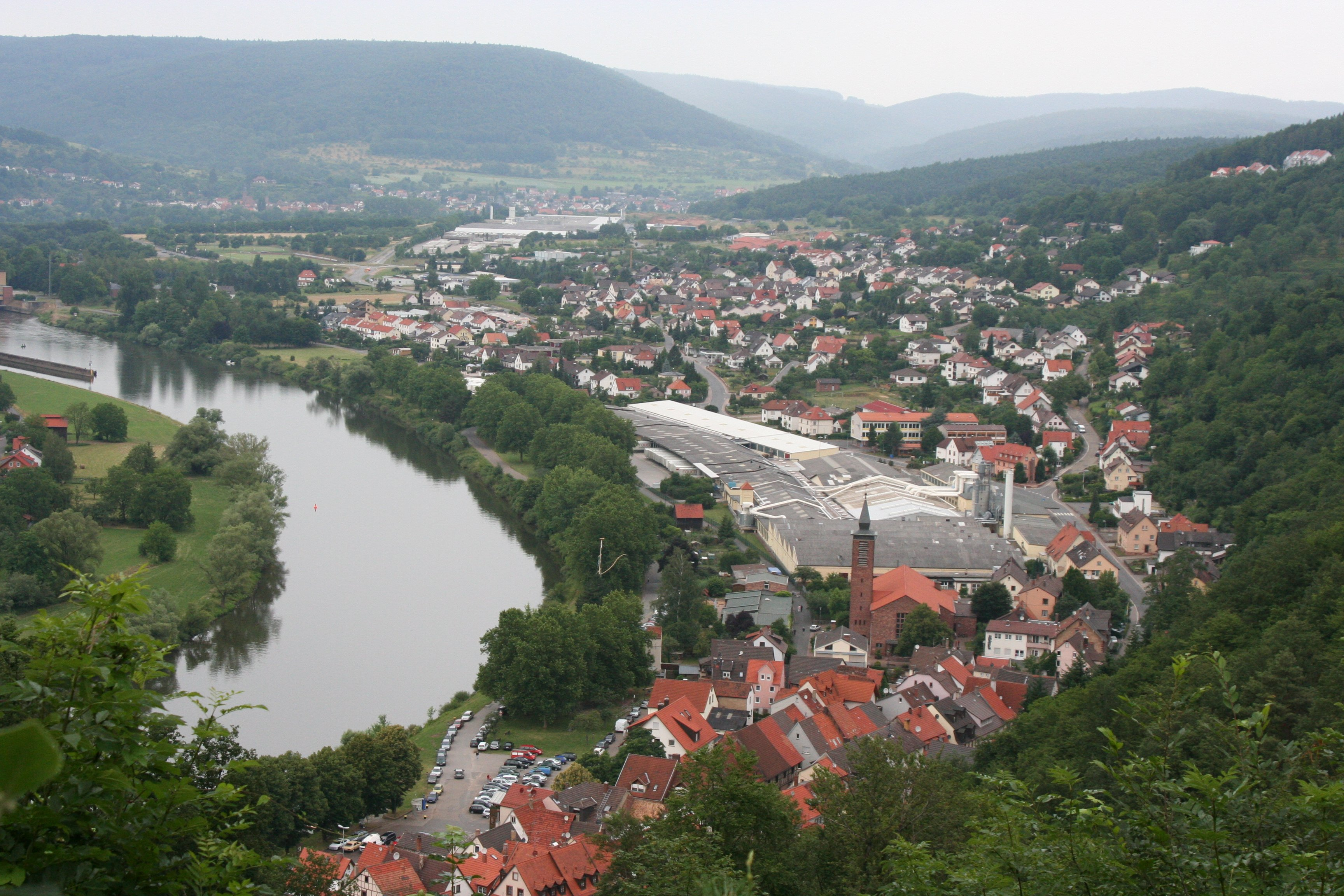 Freudenberg as seen from its castle ruin